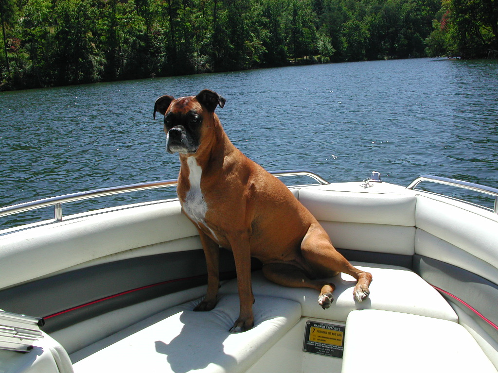 The Lovely Zelda